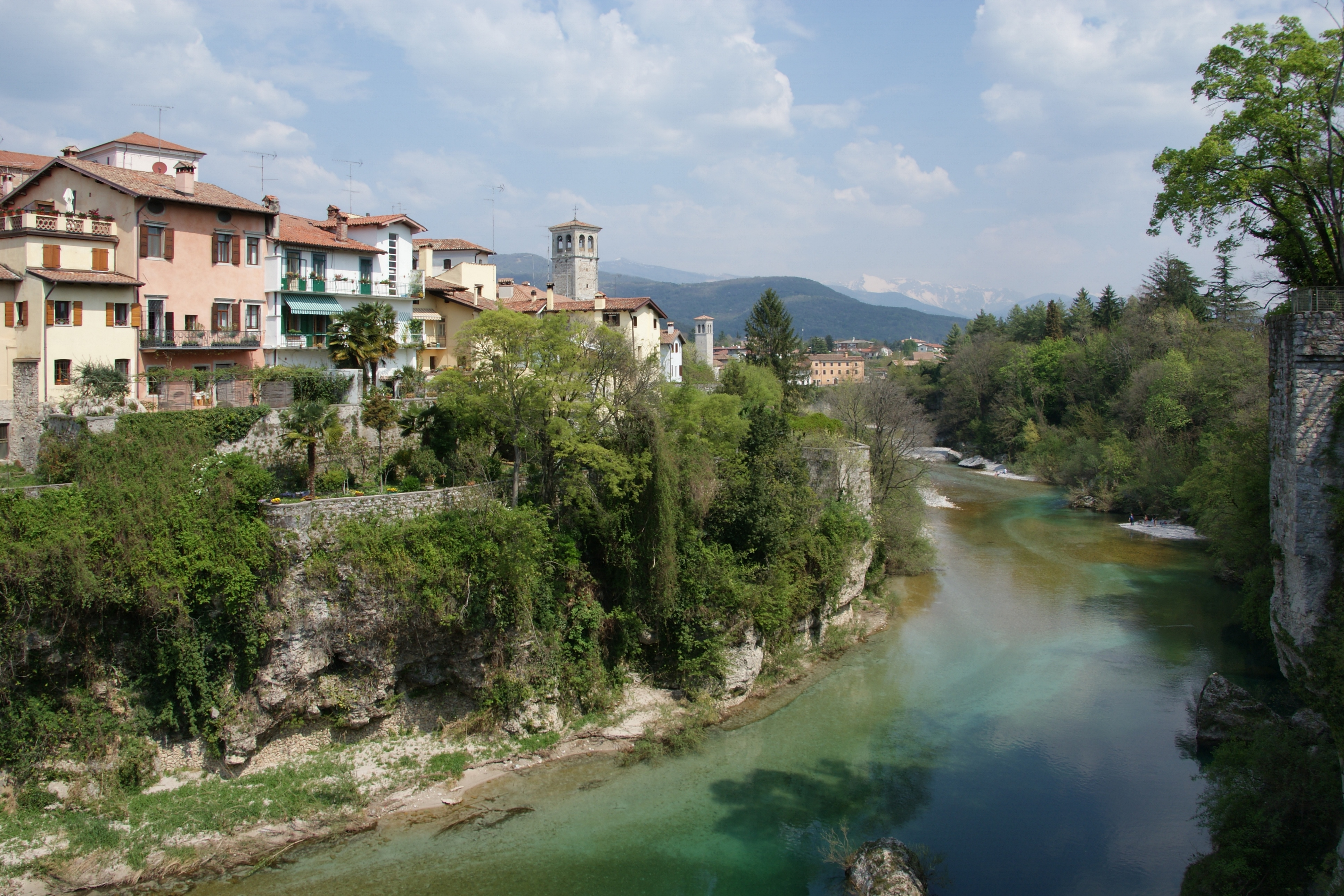 Cividale del Friuli, view from Ponte del Diavolo